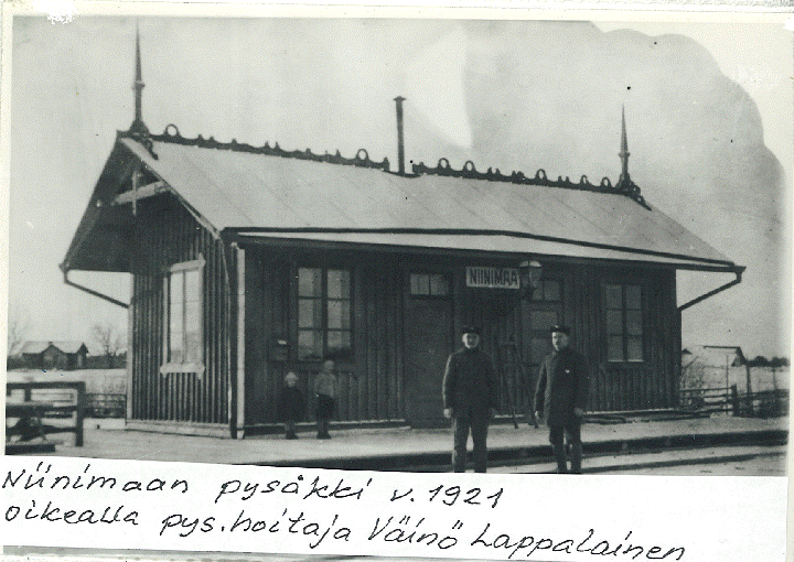 Niinimaa railway station in Alavus, Finland in 1921